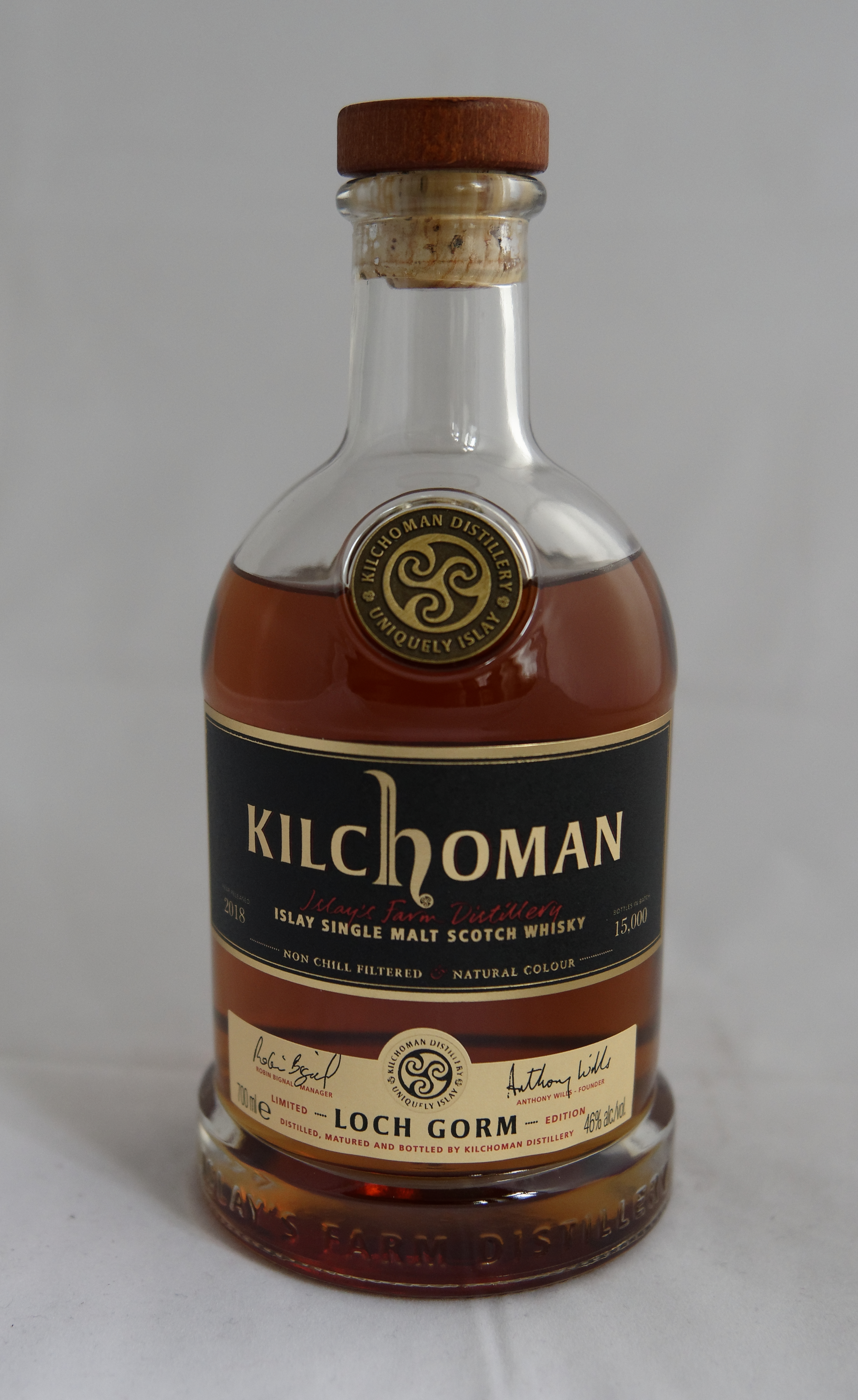 Kilchoman Loch Gorm, 46 % vol. alc., NAS, 15.000 bottles